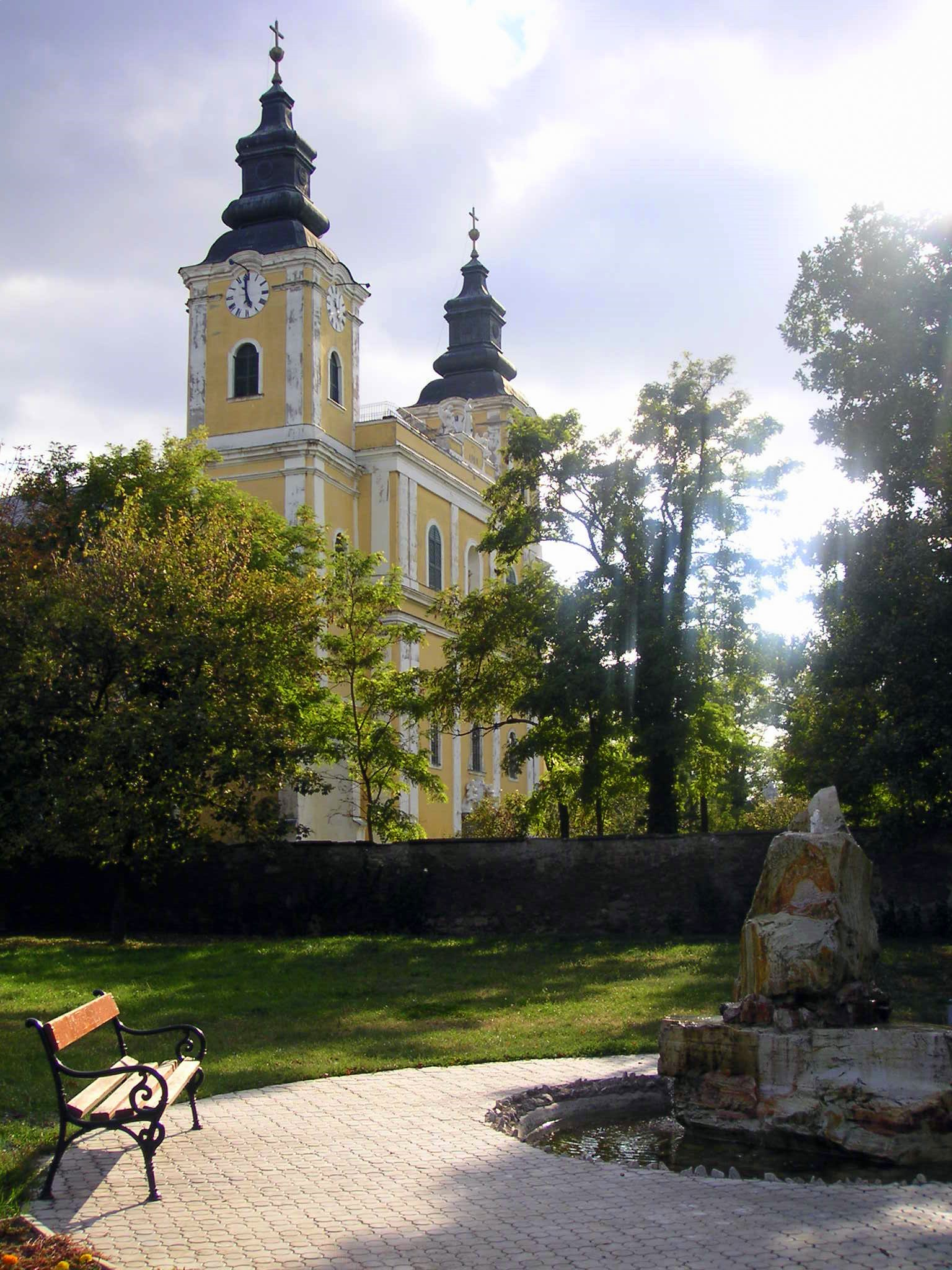 Church in Jászapáti, Hungary Author: Wojsyl